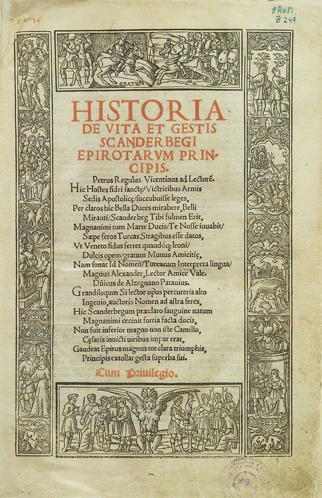 Barletius Historia de vita et gestis Scanderbegi Epirotarum.